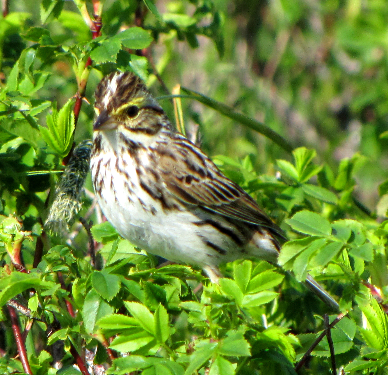 Savannah Sparrow (Passerculus sandwichensis labradorius), Cape Bonavista, Newfoundland and Labrador, Canada